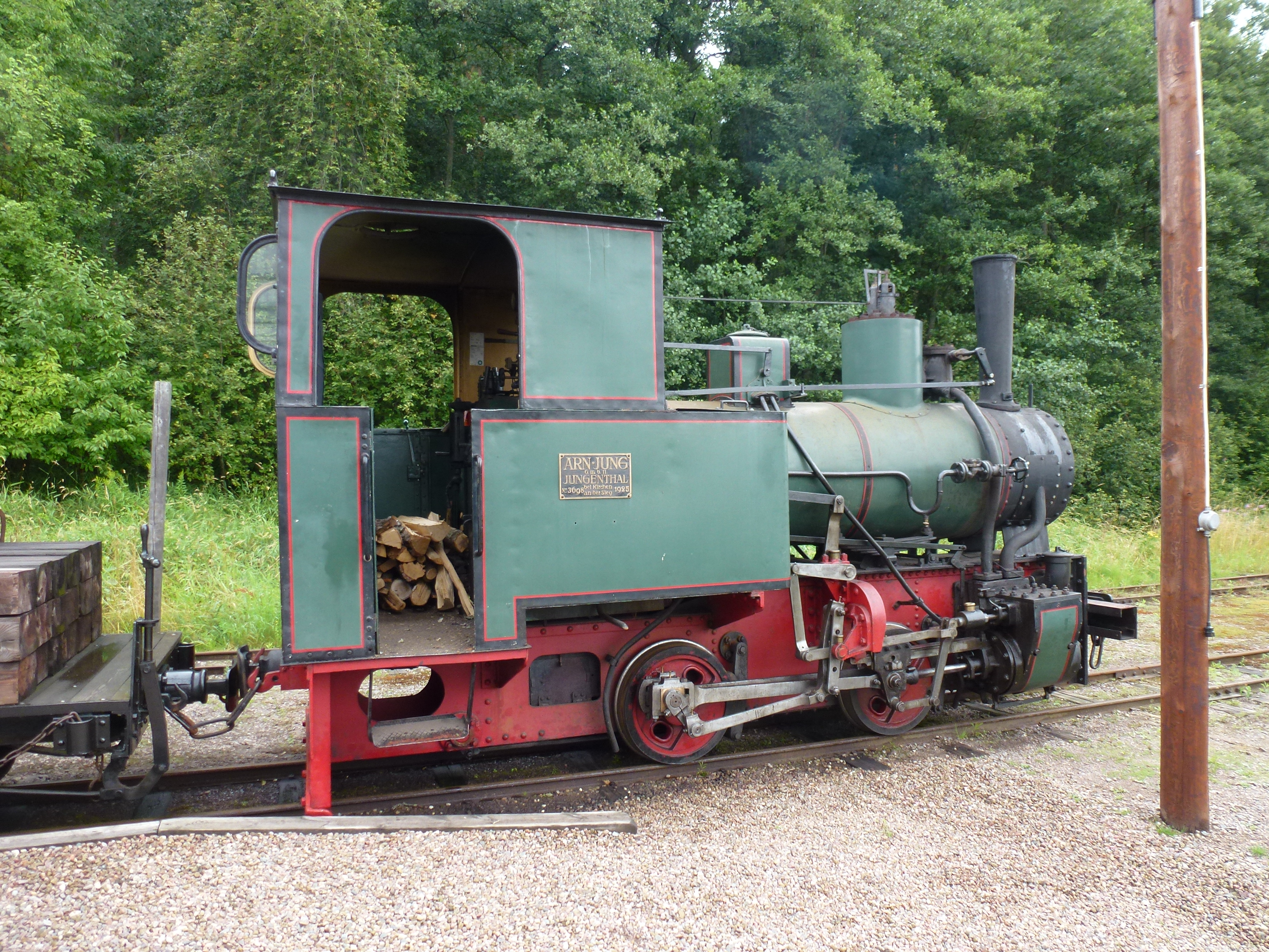 Steam engine No 3698 from ARN.JUNG, Jungenthal, built 1925, at Risten - Lakvik museum railway, Östergötland County, Sweden